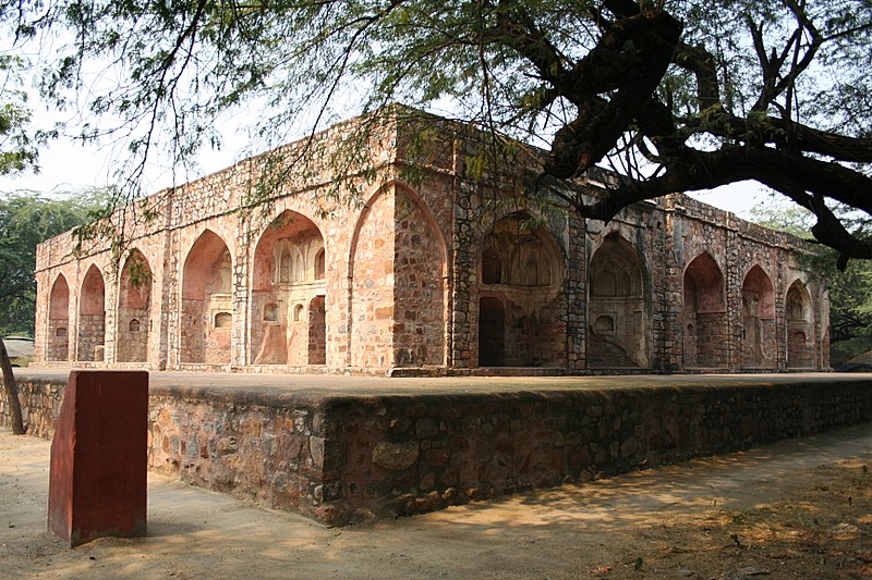 Tomb of Mirza Muzaffer, Bara Batasha No. 151 Ghiaspur This monument is within area presently used by Bharat Scouts and Guides complex on the road leading to Nizamuddin Station.Mirza Muzaffar son in law of Akbar is buried here.